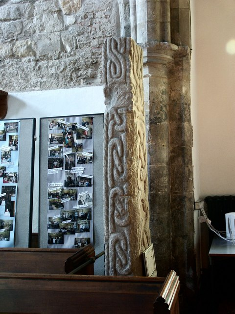 Interior of St Oswald, Crowle The Runic stone.